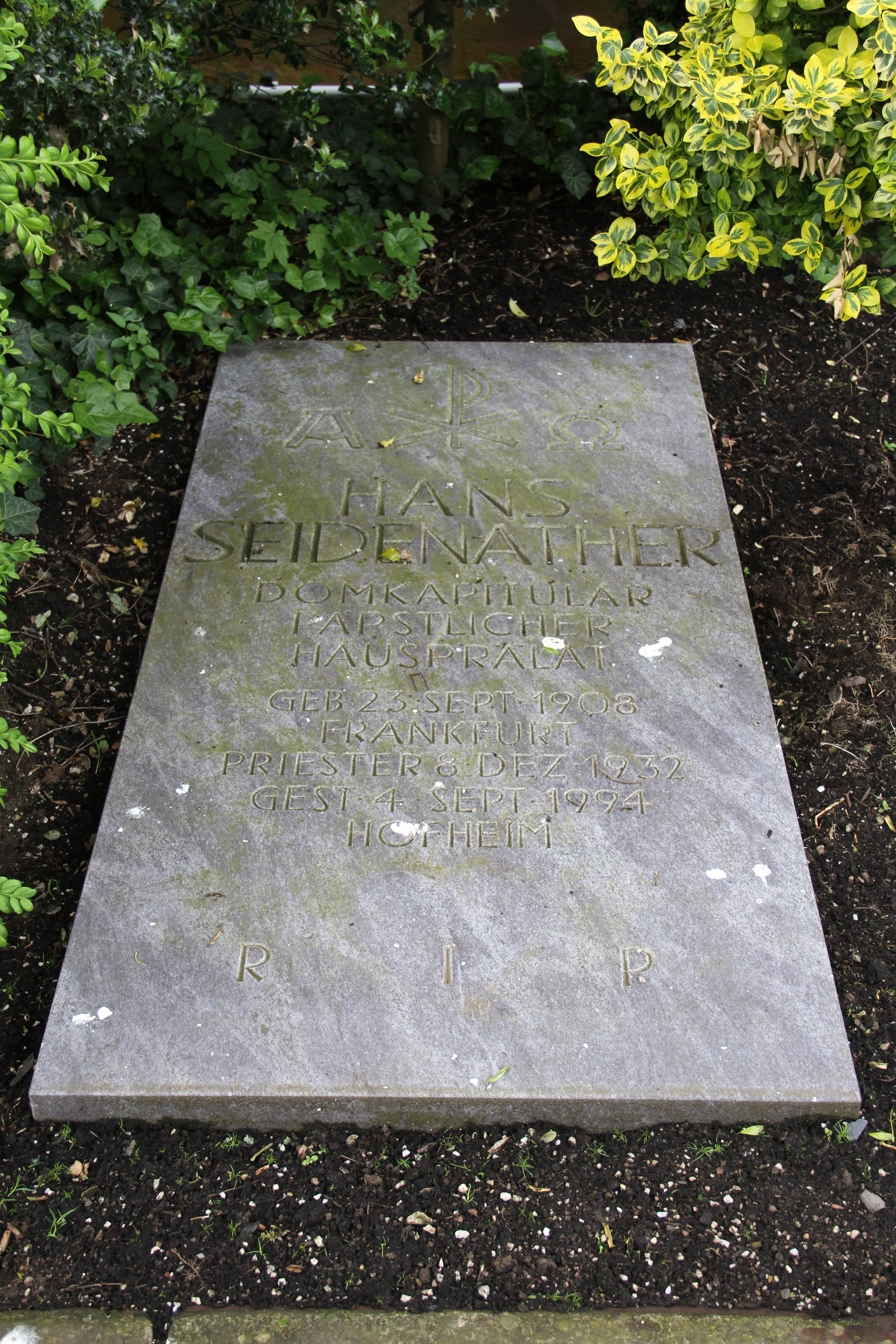 Grablege der Domherren on the former cemetary next to the Limburg Cathedral